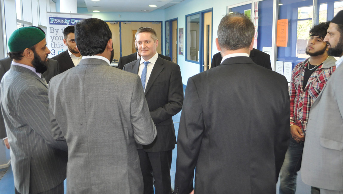 Joel Hayward (centre) with some attendees at the Minhaj-ul-Quran "Tackling Extremism Promoting Peace and Integration" Conference in Northampton, England, on 24 July 2011.